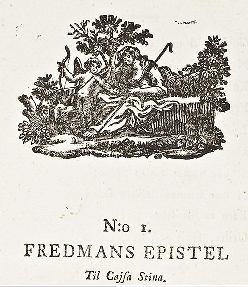 Pastoral head-piece engraving for Carl Michael Bellman's 1790 Fredman's Epistles.